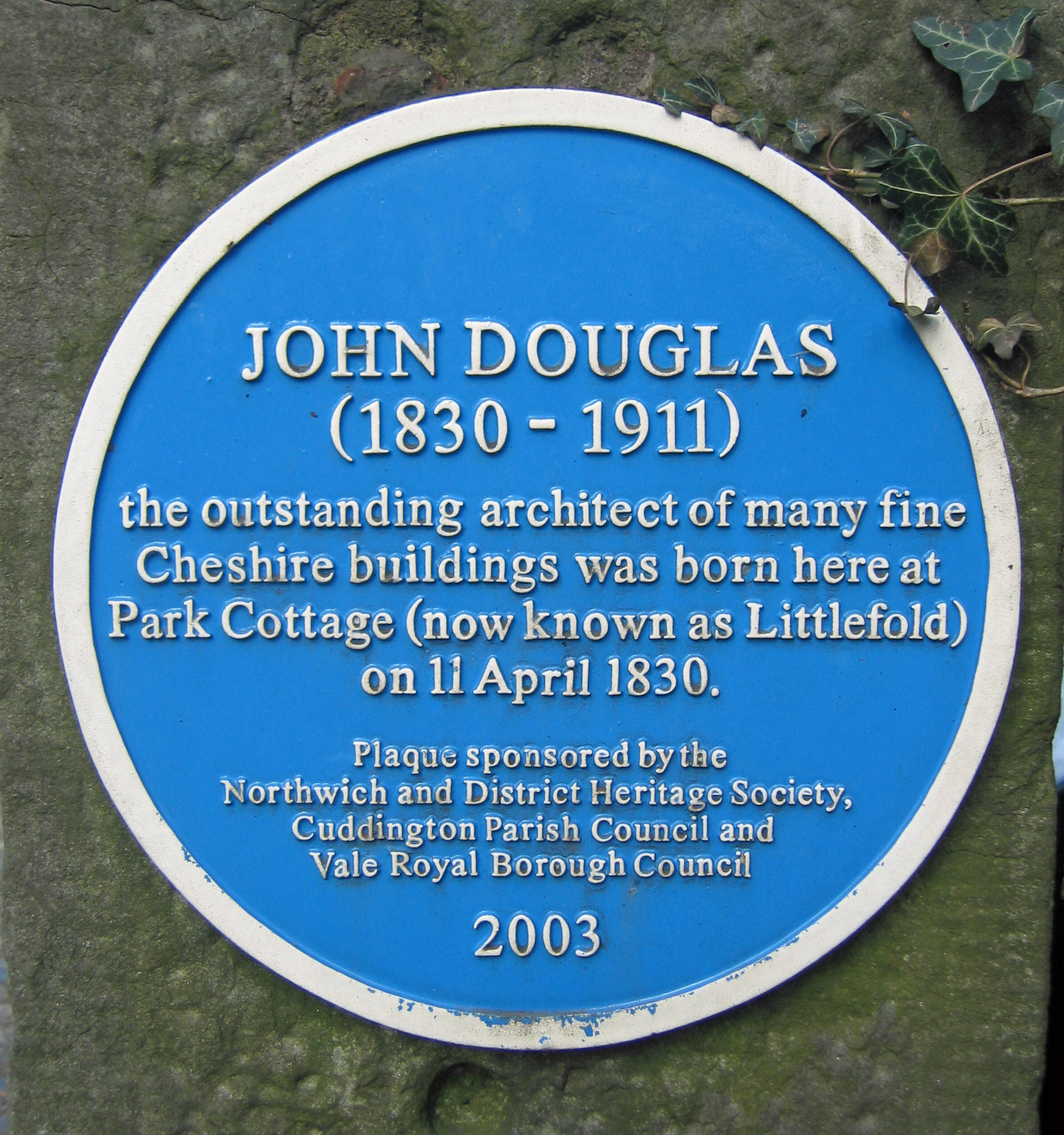 Photograph of the plaque outside the birthplace of the architect John Douglas